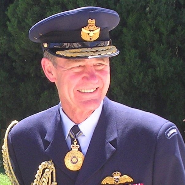 Head detail of Air Chief Marshal Angus Houston at an Australia Day ceremony in Canberra.